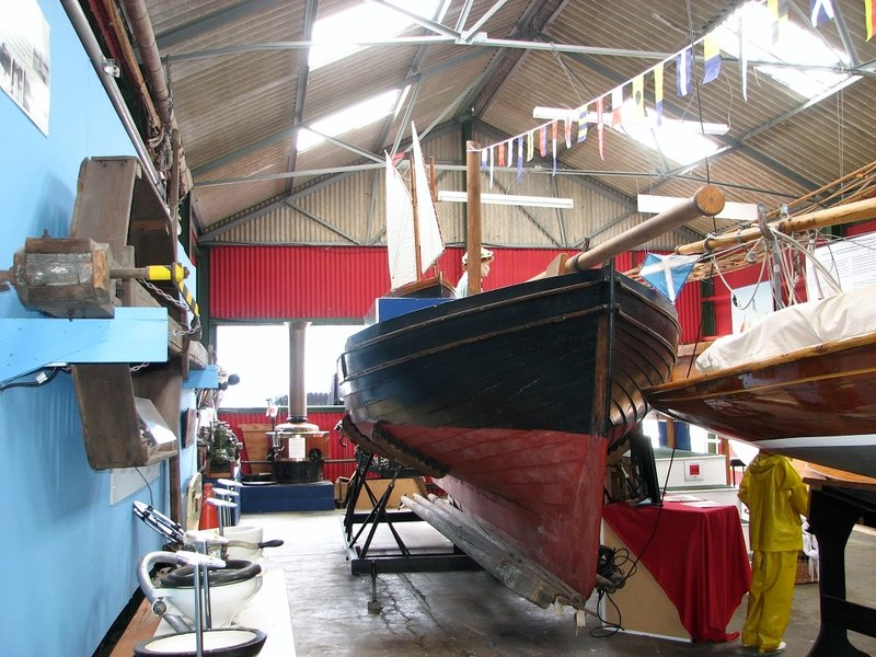 Museum of the Broads - racing yacht 'Maria'